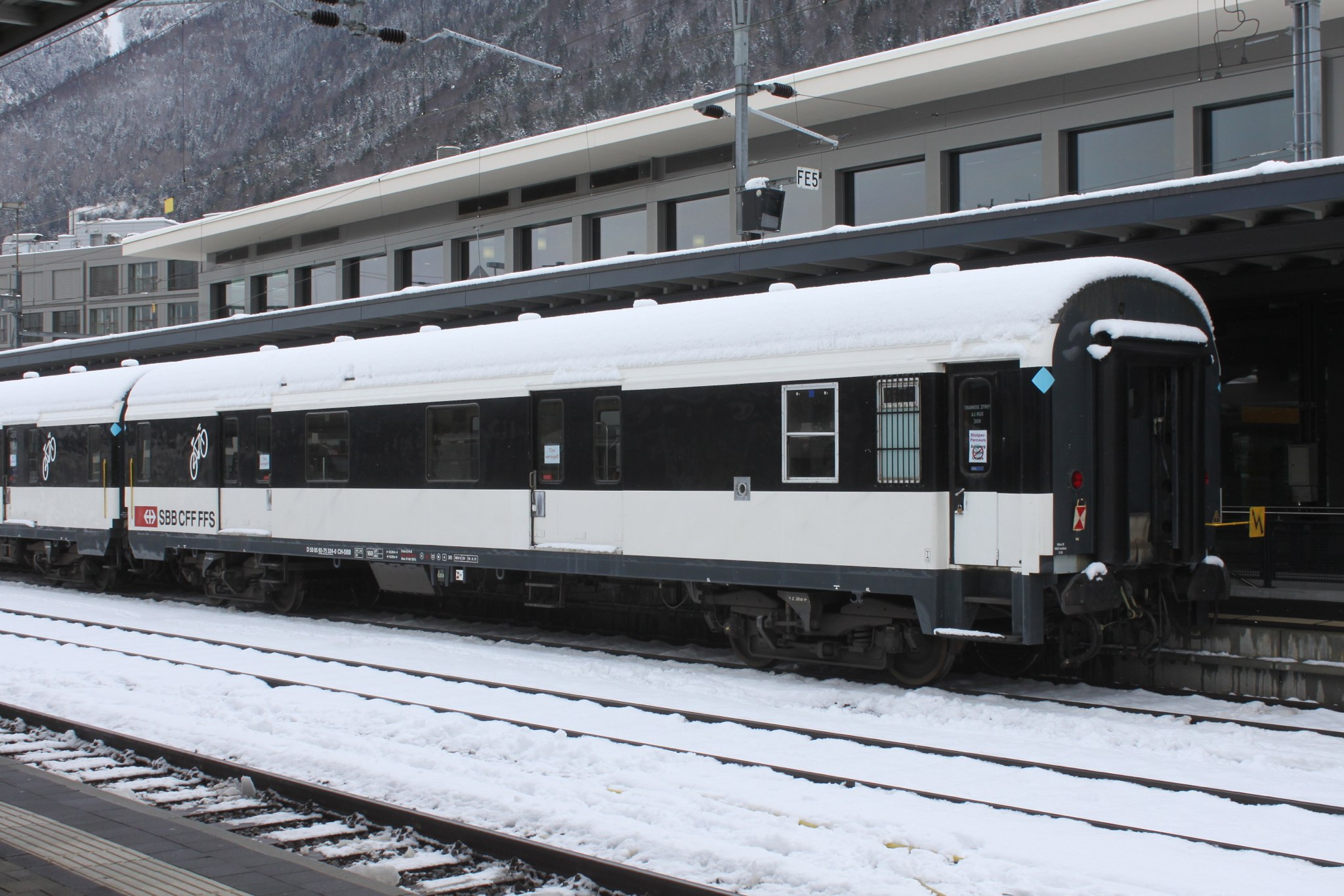 SBB CFF FFS D 50 85 92-75 324-0 at Chur train station.